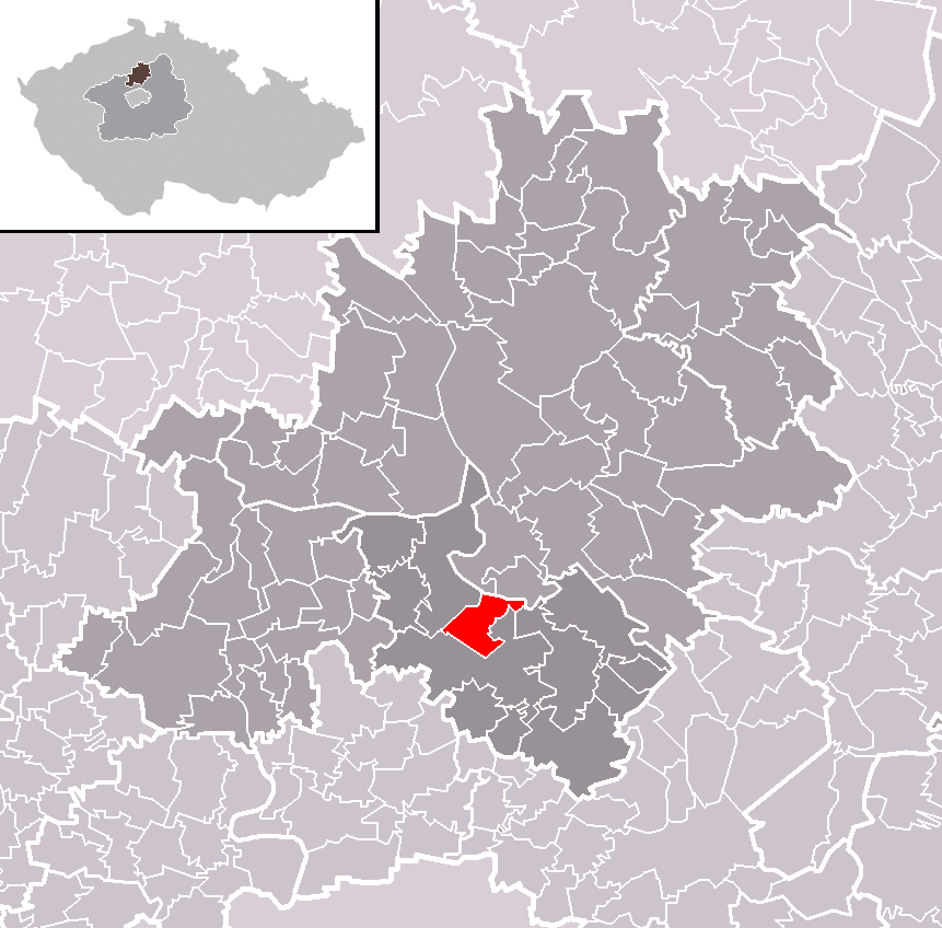 Location of Libiš municipality within Mělník District and administrative area of Neratovice as a Municipality with Extended Competence.